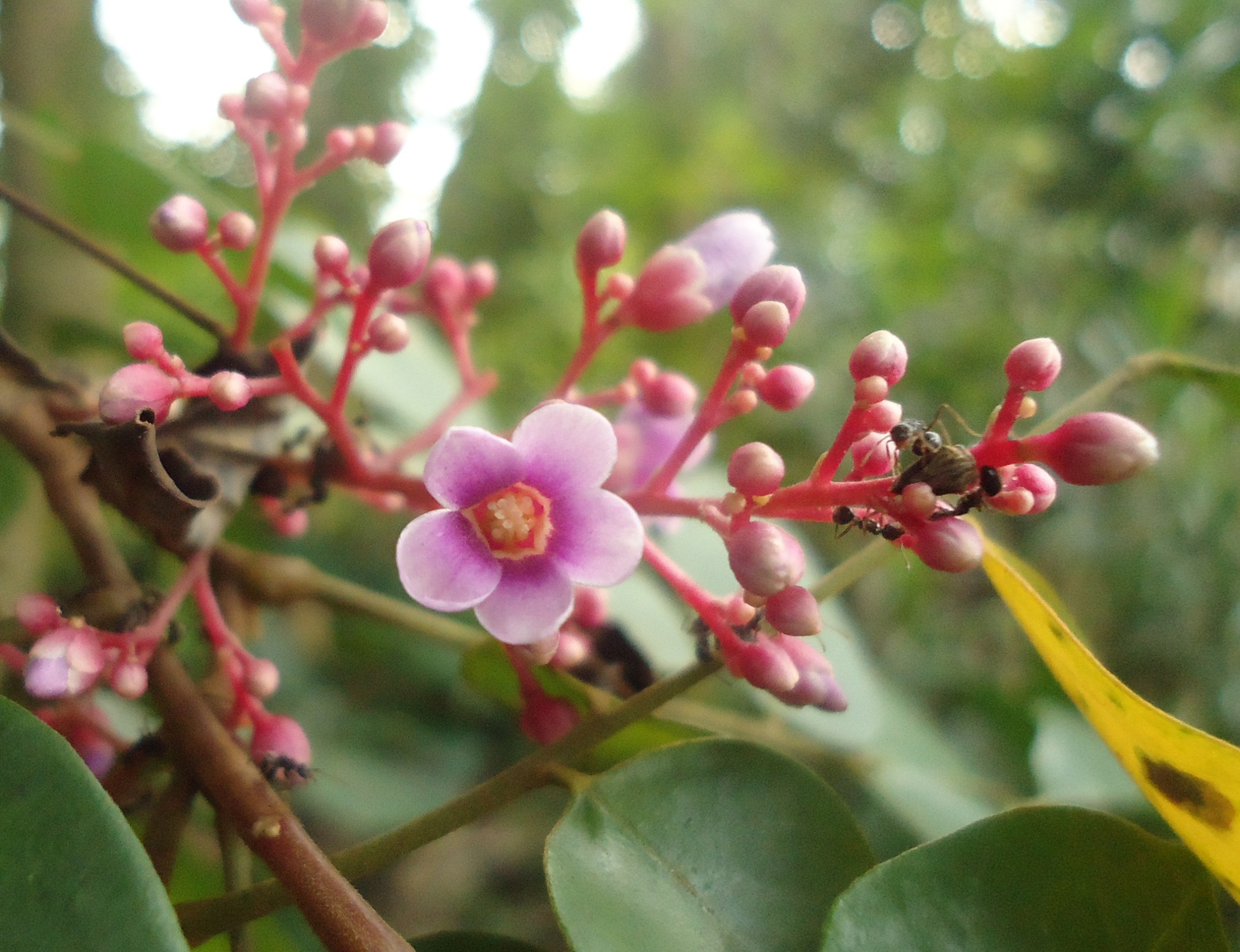 Averrhoa carambola flowers (Philippines)